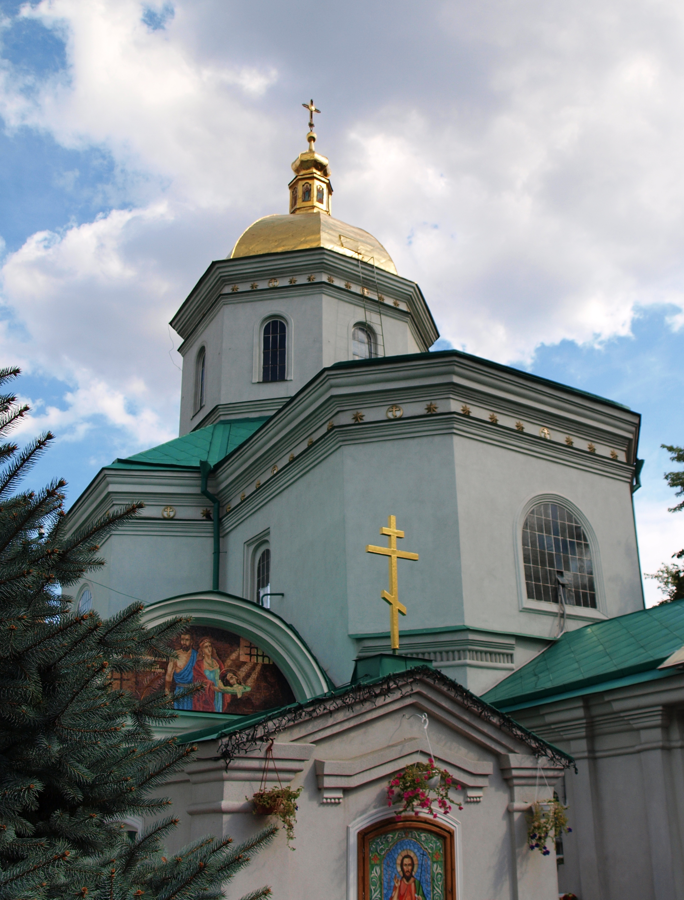 Illy_Proroka_Church in Kyiv